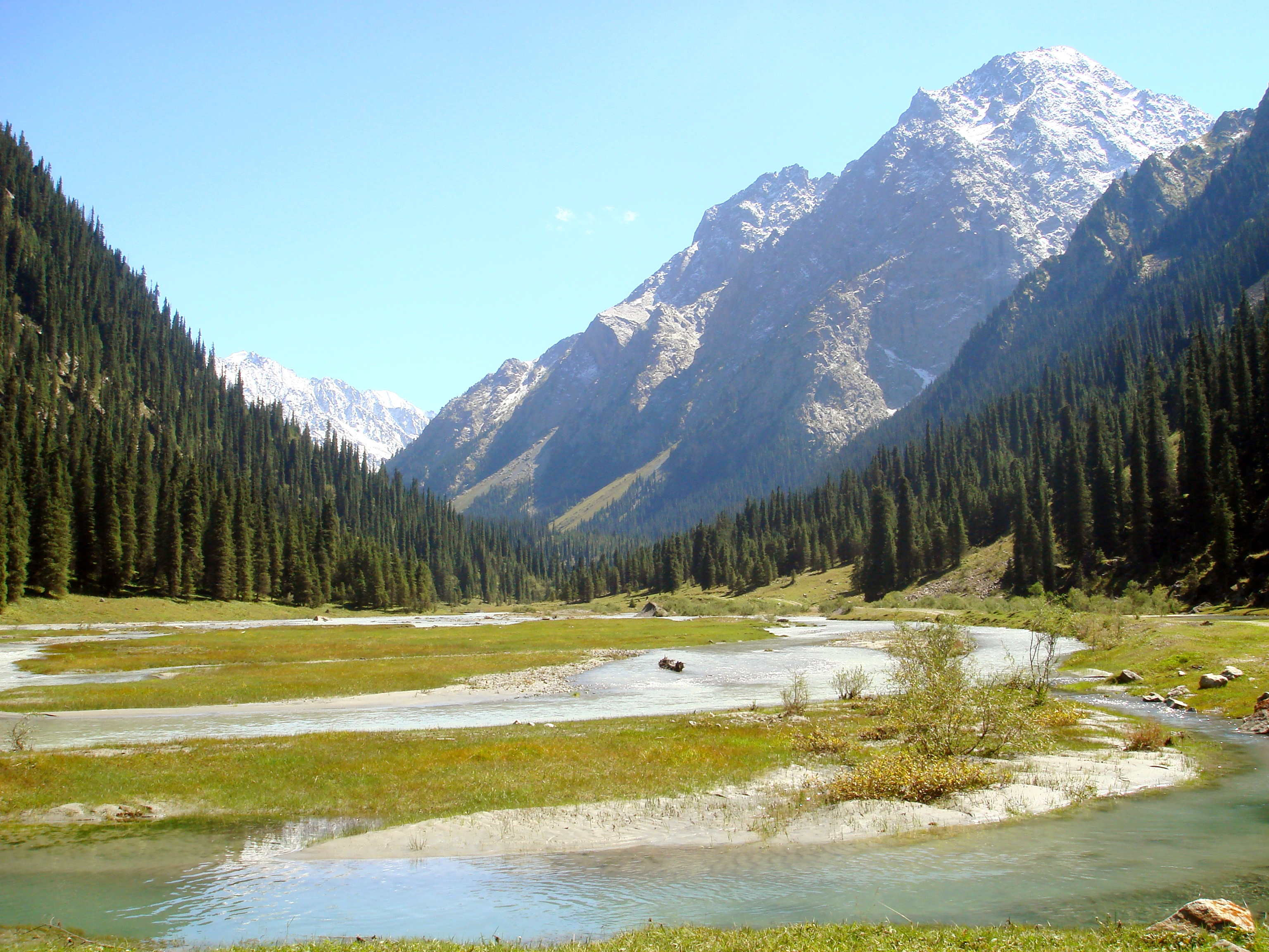 The Karakol Valley (Issyk Kul Province, Kyrgyzstan). Trees are Picea schrenkiana.